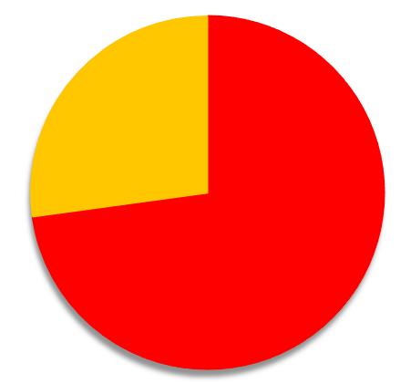 Expressed as a pie chart in the Hyōgo gubernatorial election in 2013, the number of votes for each candidate. explanatory notes ■ - Toshizo Ido ■ - Kotaro Tanaka